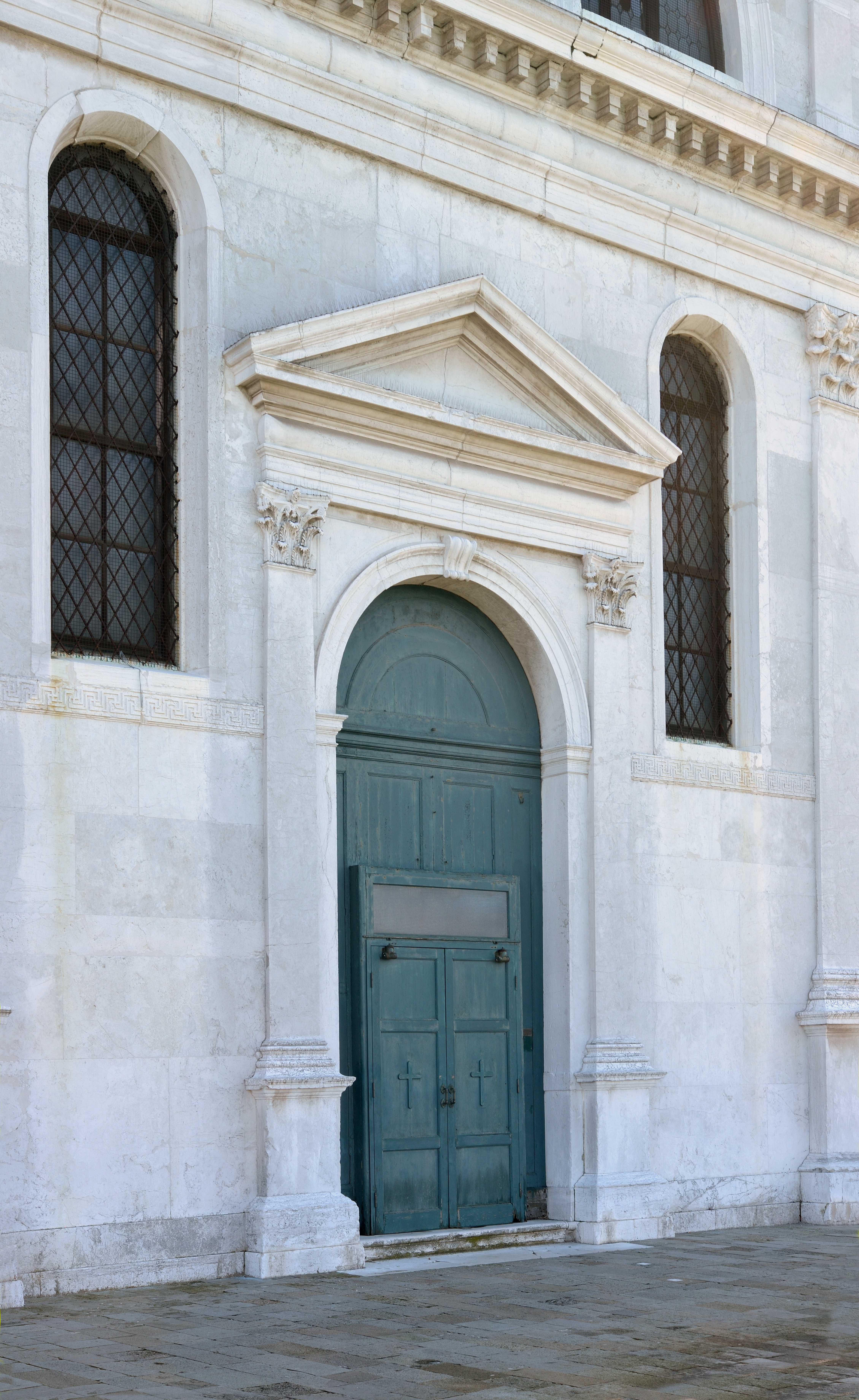 Portal of the Santa Maria della Presentazione church in Venice